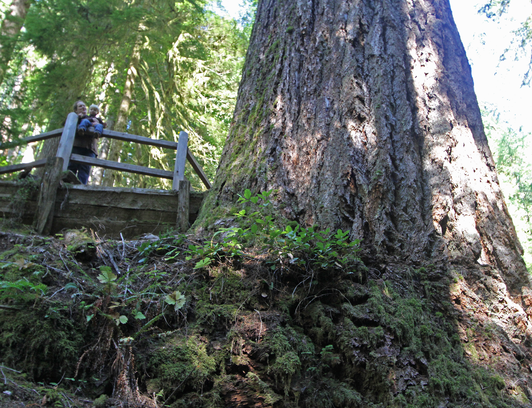 Known for its big trees, Oregon boasts one giant that stands high above the others: the Doerner Fir. Managed by the Bureau of Land Management in Oregon’s Coast Range, the mighty Doerner Fir is the world’s tallest Douglas fir – a towering 327 feet tall, 11.5 feet in diameter, and over 450 years old. Winding roads take travelers through some of the most valuable forests in the nation to the Doerner Fir Trail, 50 miles from Coos Bay in Oregon’s Coast Range mountains.